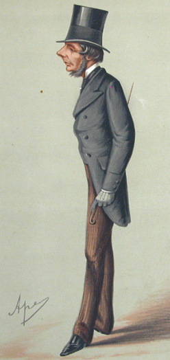 Caricature of Hugh Lupus Grosvenor, Marquis of Westminster (1825-1899) (later 1st Duke of Westminster. Caption read "The Richest man in England".